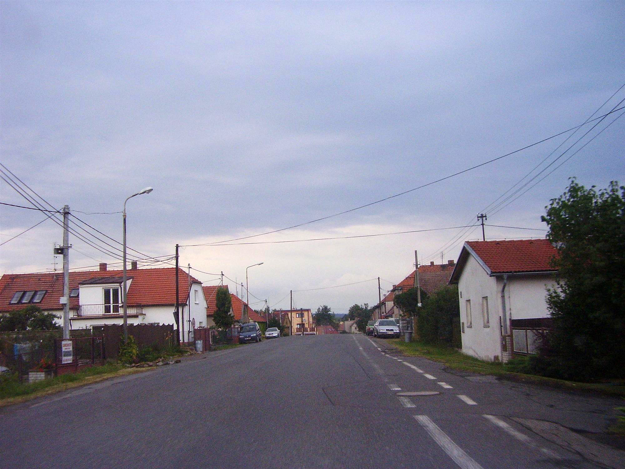 Main street in Obořiště towards Dobříš